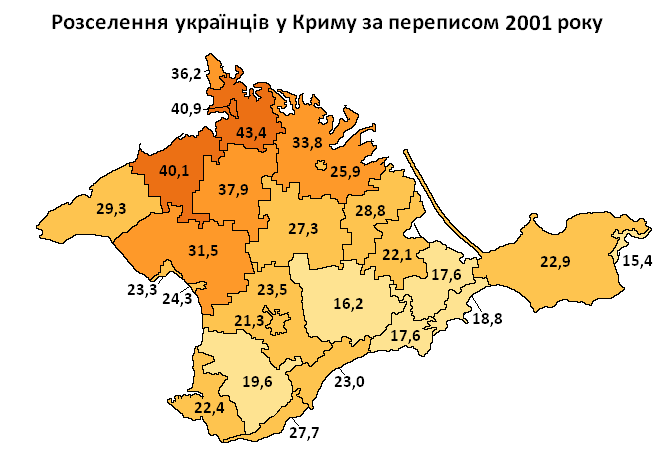 Percentage of ukrainians in Crimea according to 2001 census